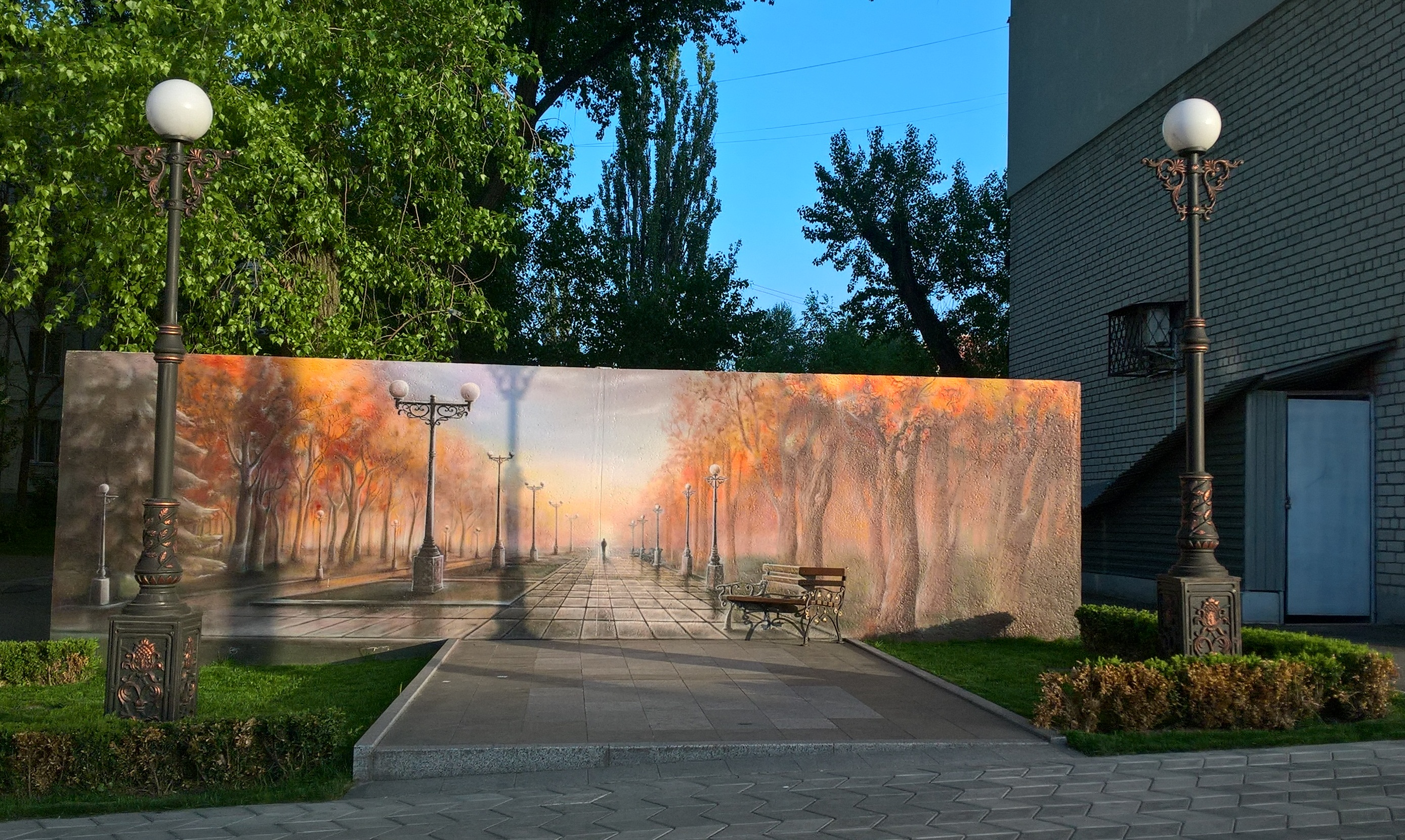 Oleh Babaiev place of murder